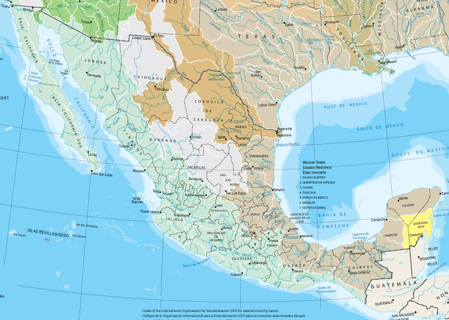 Section of the map "Watersheds", from the US Department of Interior's National Atlas of the United States